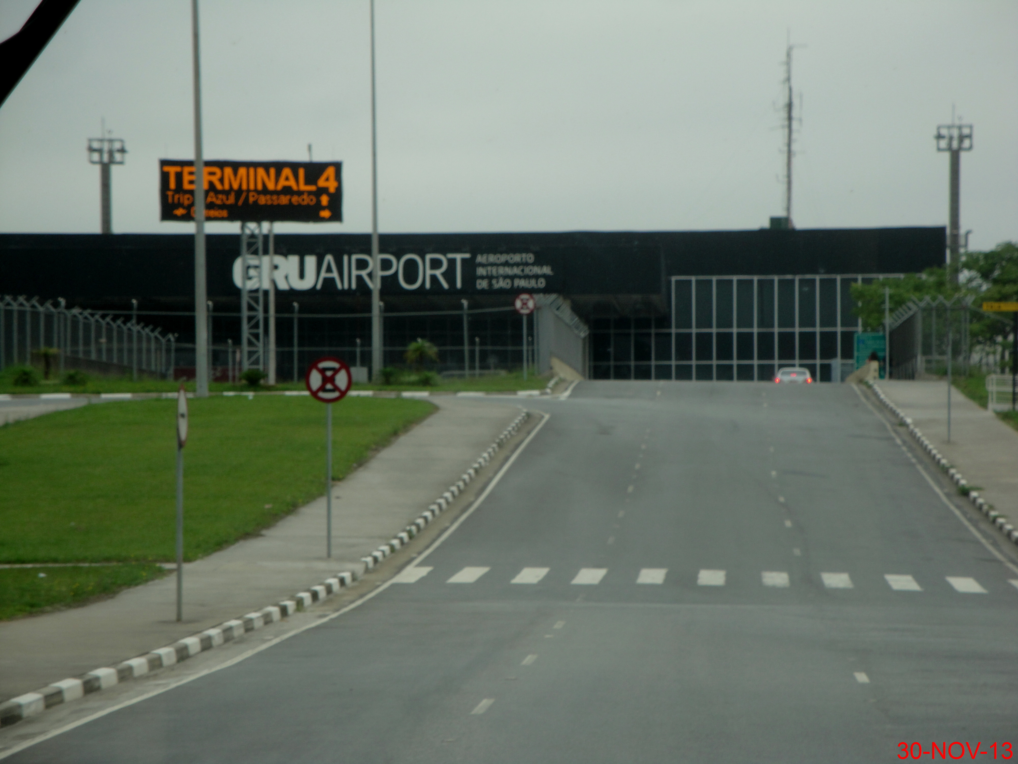 Terminal 4 no Aeroporto Internacional de São Paulo (GRU). O Terminal 4 está separado dos outros terminais pelo Terminal de Cargas. Vários ônibus fazem o transporte gratuito do Setor C do Terminal 2, até o Terminal 4, num trajeto que dura aproximadamente 6 min. Terminal 4 at Guarulhos International Airport (GRU). Terminal 4 is separated from the other terminals by the Cargo Terminal. Several buses are free shipping Sector C of Terminal 2 to Terminal 4, a path that lasts approximately 6 min.